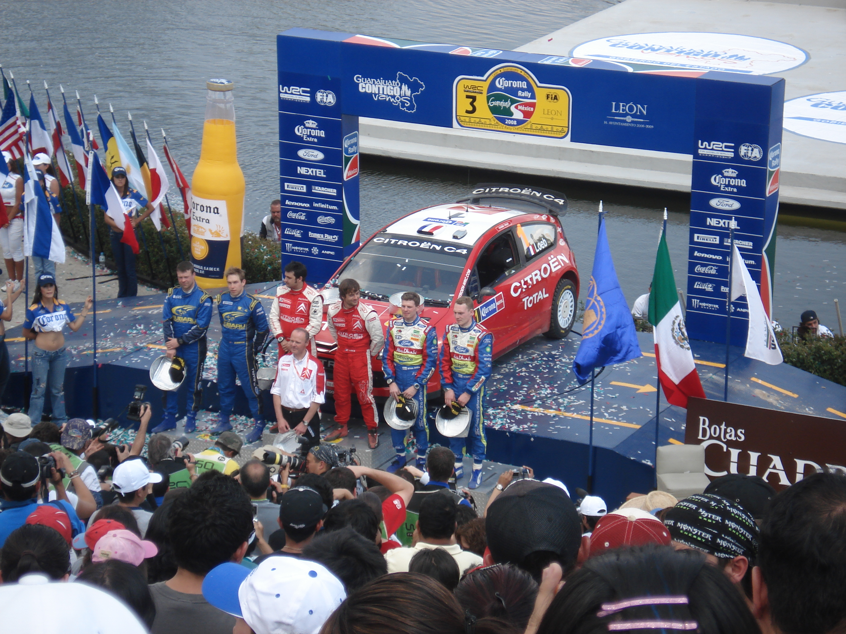 The winner's podium at the 2008 Rally Mexico. In the center are rally winner Sebastien Loeb and co-driver Daniel Elena in front of their Citroen C4 WRC car. Second place finisher Chris Atkinson of the Subaru World Rally Team is to their right and third place finisher Jari-Matti Latvala of the BP Ford Abu Dhabi team is to their left. Citroen Total World Rally Team boss Olivier Quesnel stands at front.